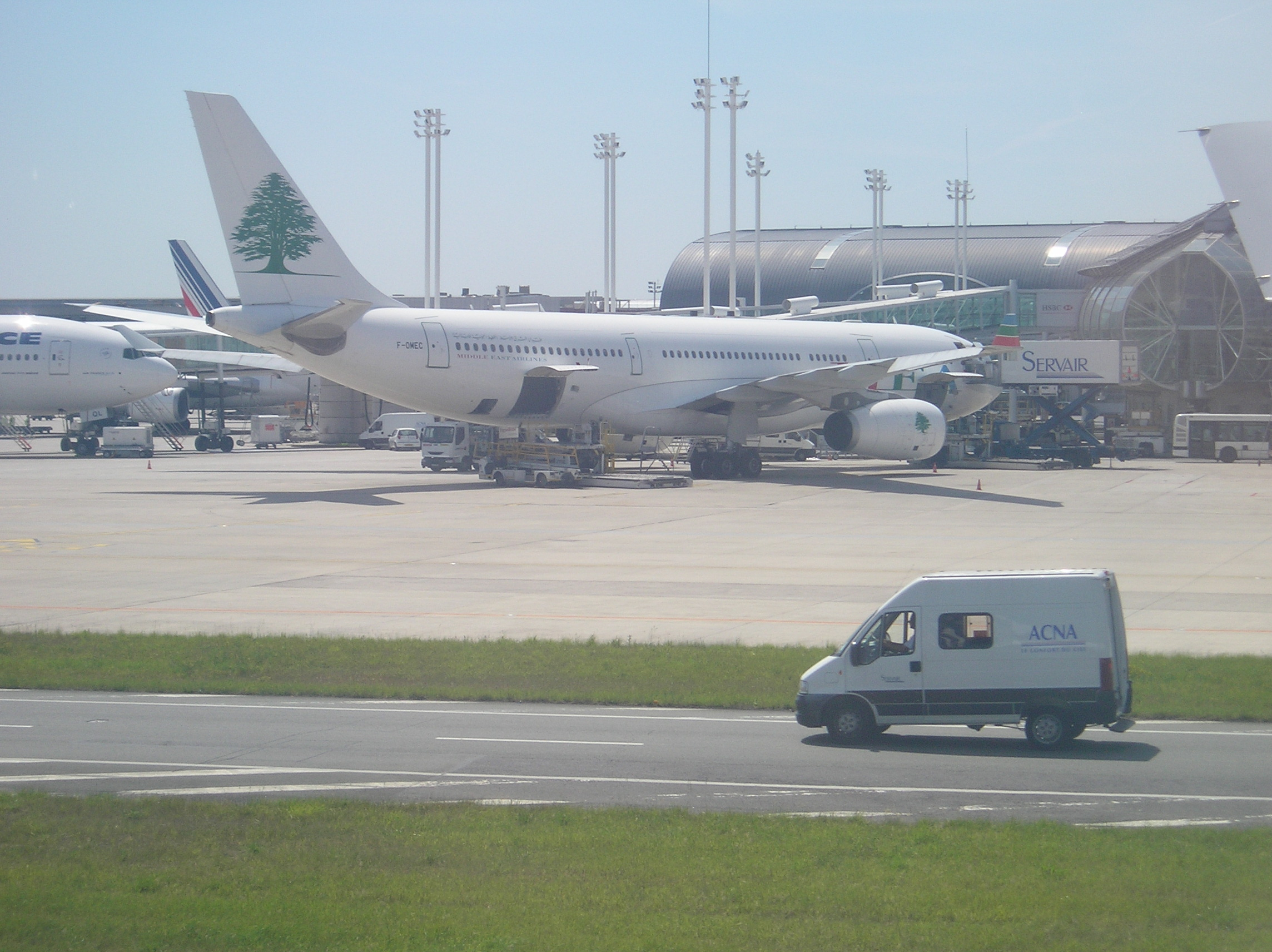 Middle East Airlines Airbus A330-200 (F-OMEC) @ Roissy Charles De Gaulle Airport.